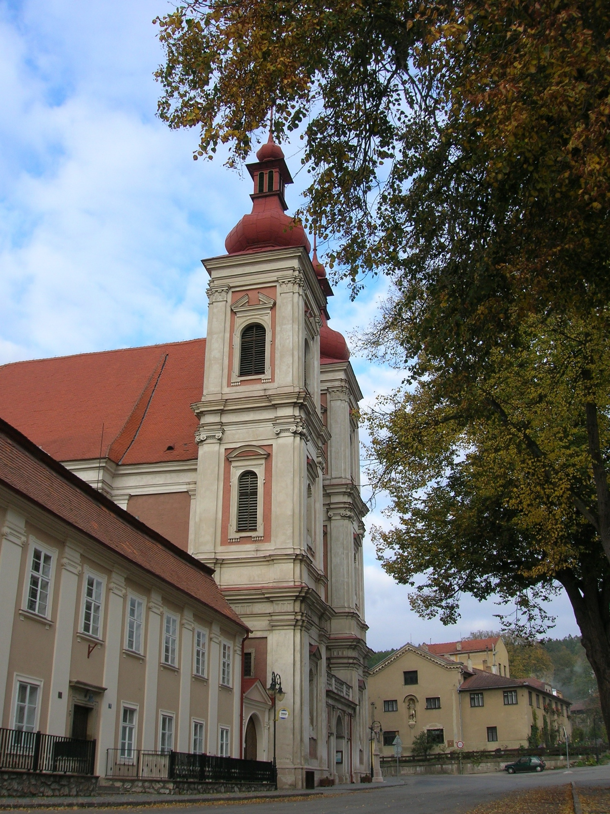 Lomnice Church